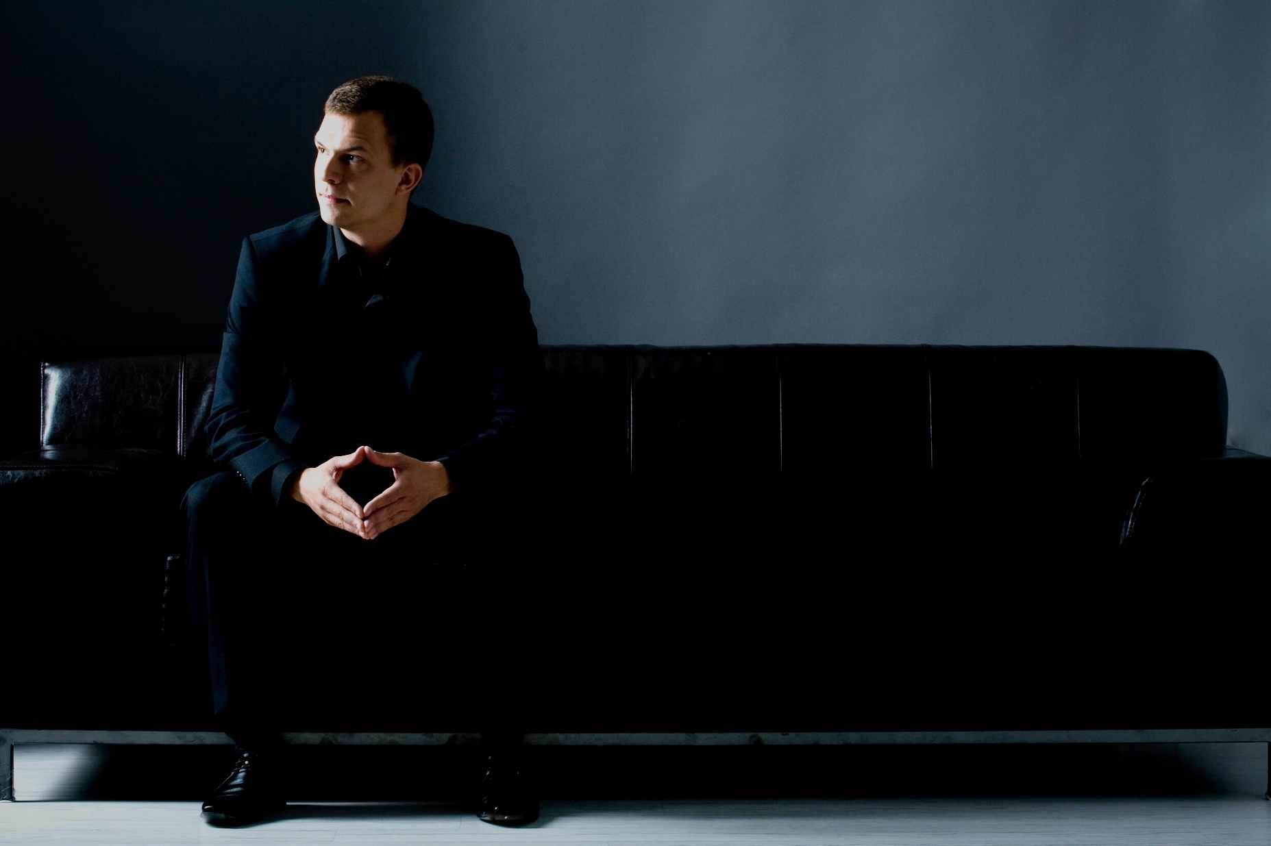 Adam Gyorgy 2011